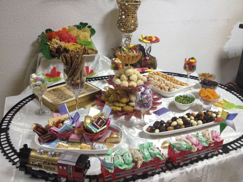 Home made cookies, Eid el adha